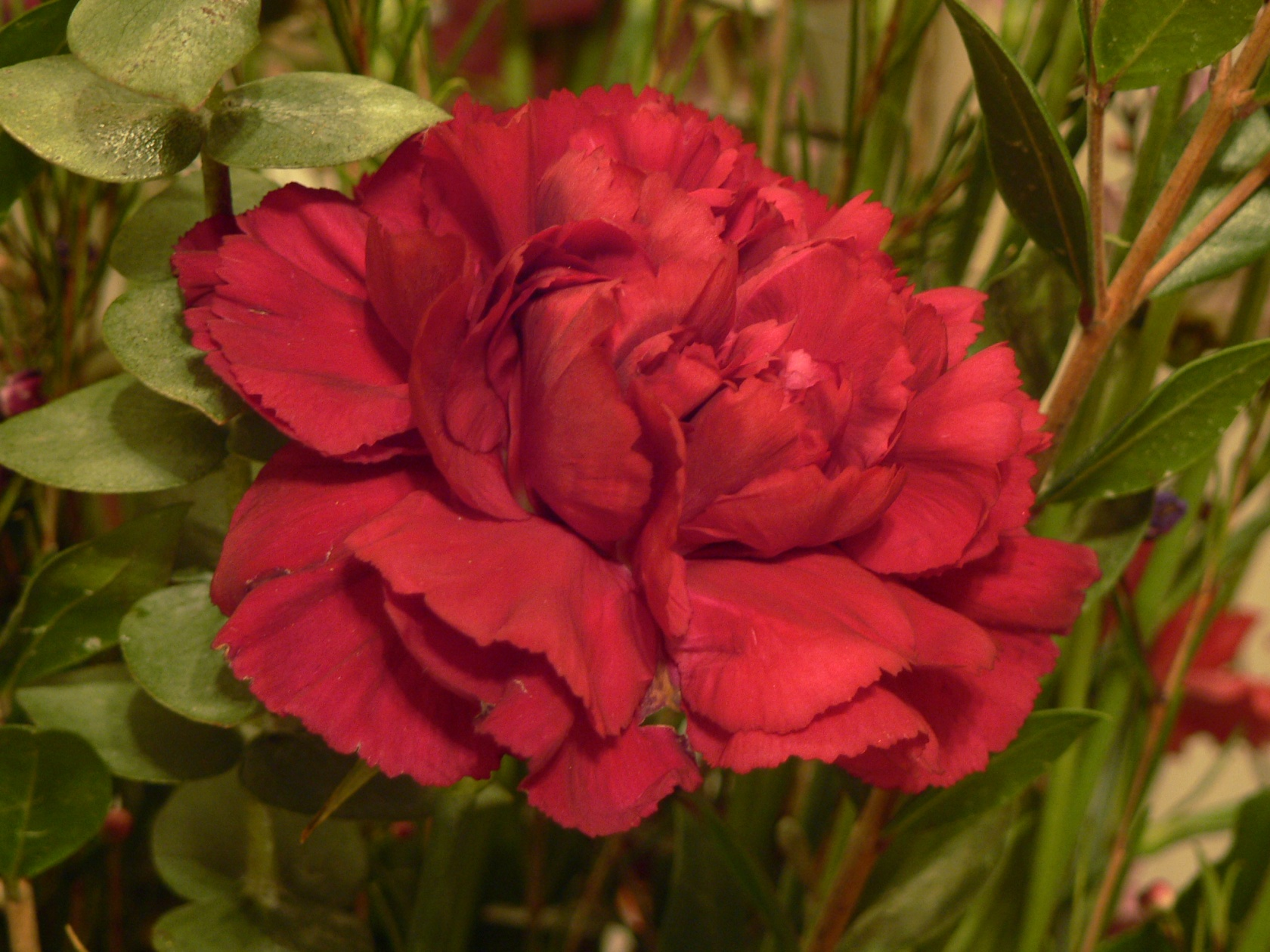 Red carnations